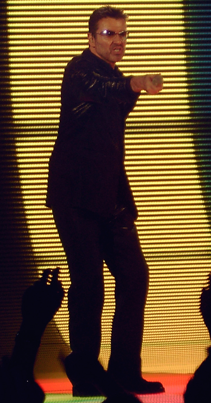 George Michael performing at the Olympiahalle arena (Munich, Germany) in 2006, for the 25 Live tour.